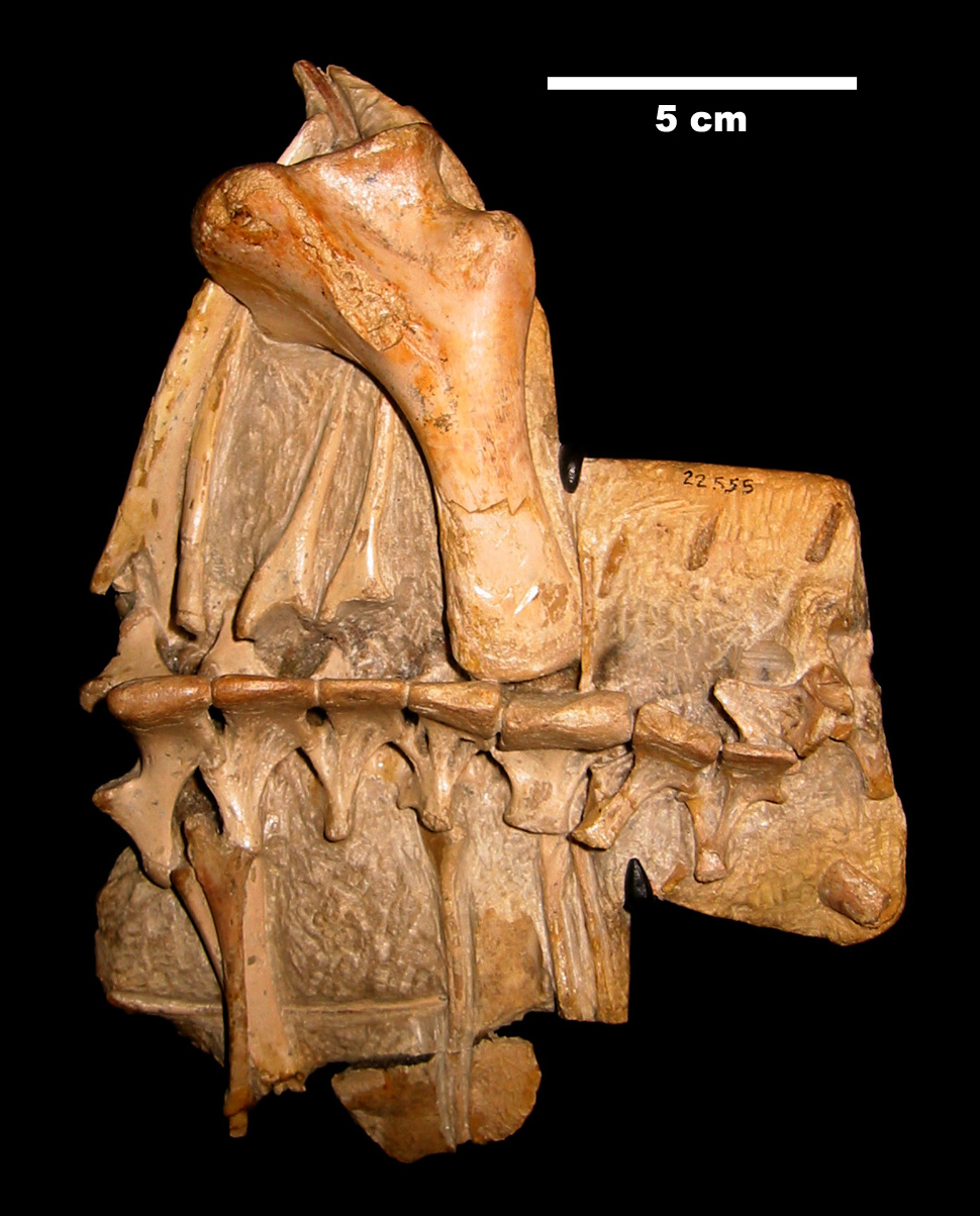 A photograph of partial specimen American Museum of Natural History (AMNH) 22555, anterior dorsal vertebrae, dorsal ribs and partial shoulder girdle (at least right scapula) of Anhanguera sp. (formerly often assigned to Anhanguera santanae),[1] from the Early Cretaceous Romualdo Formation (former Romualdo Member of the Santana Formation) of NE Brazil in dorsal view. ↑ cf. fig. 2B (also hosted at Commons), Table 2, and paragraph 50 in: Felipe L. Pinheiro​, Taissa Rodrigues (2017): Anhanguera taxonomy revisited: is our understanding of Santana Group pterosaur diversity biased by poor biological and stratigraphic control? PeerJ 5:e3285